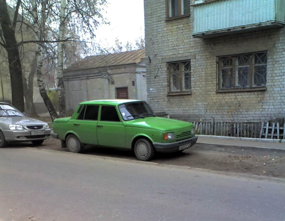 Wartburg 1.3 as seen in Nizhny Novgorod, Russia in 2006